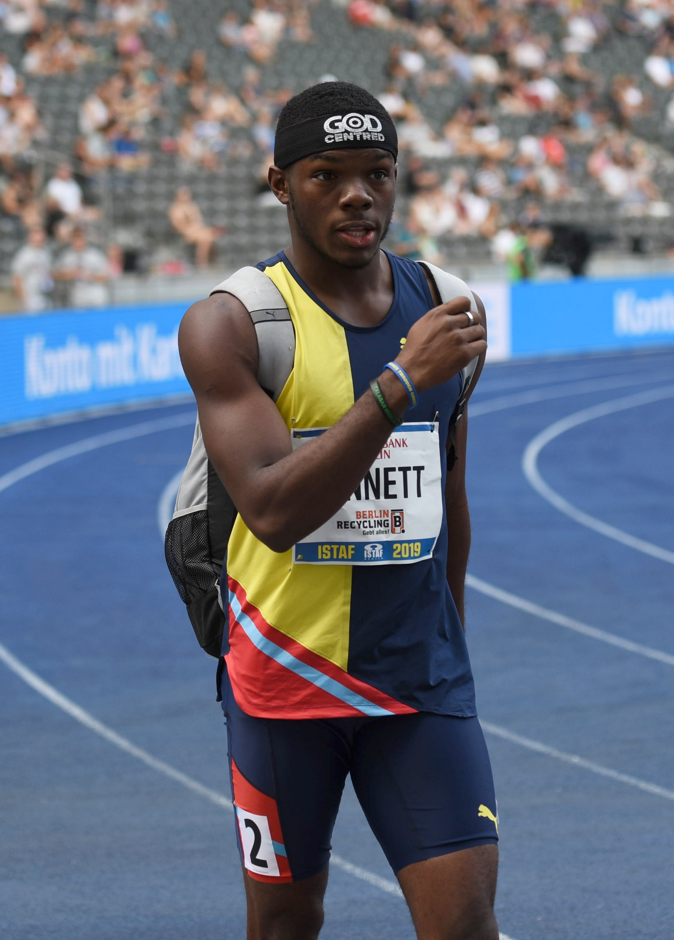 110 m hurdles at the ISTAF 2019 on 1 September 2019 in Berlin, Germany.